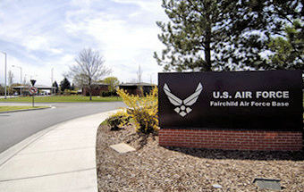 Main entrance of Fairchild AFB, Washington